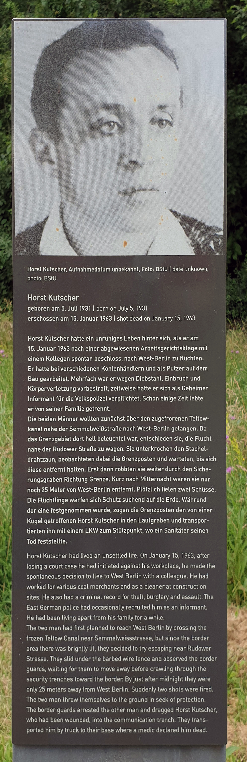 Memorial plaque, Horst Kutscher, Berliner Mauerweg, Berlin-Altglienicke, Germany